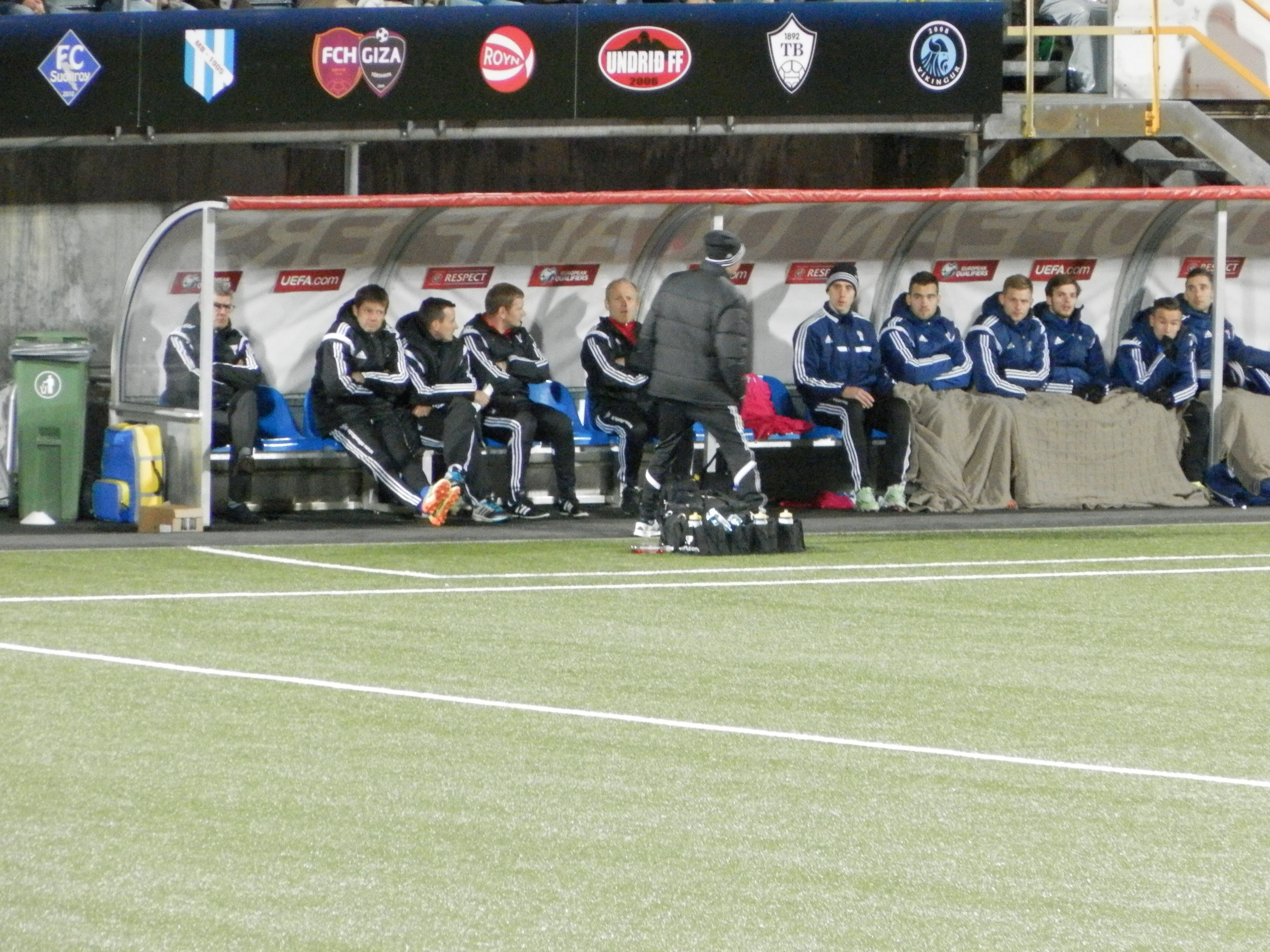 Football match between the national teams of the Faroe Islands and Northern Ireland on Tórsvøllur in Tórshavn, 4 September 2015. The result was 1-3.